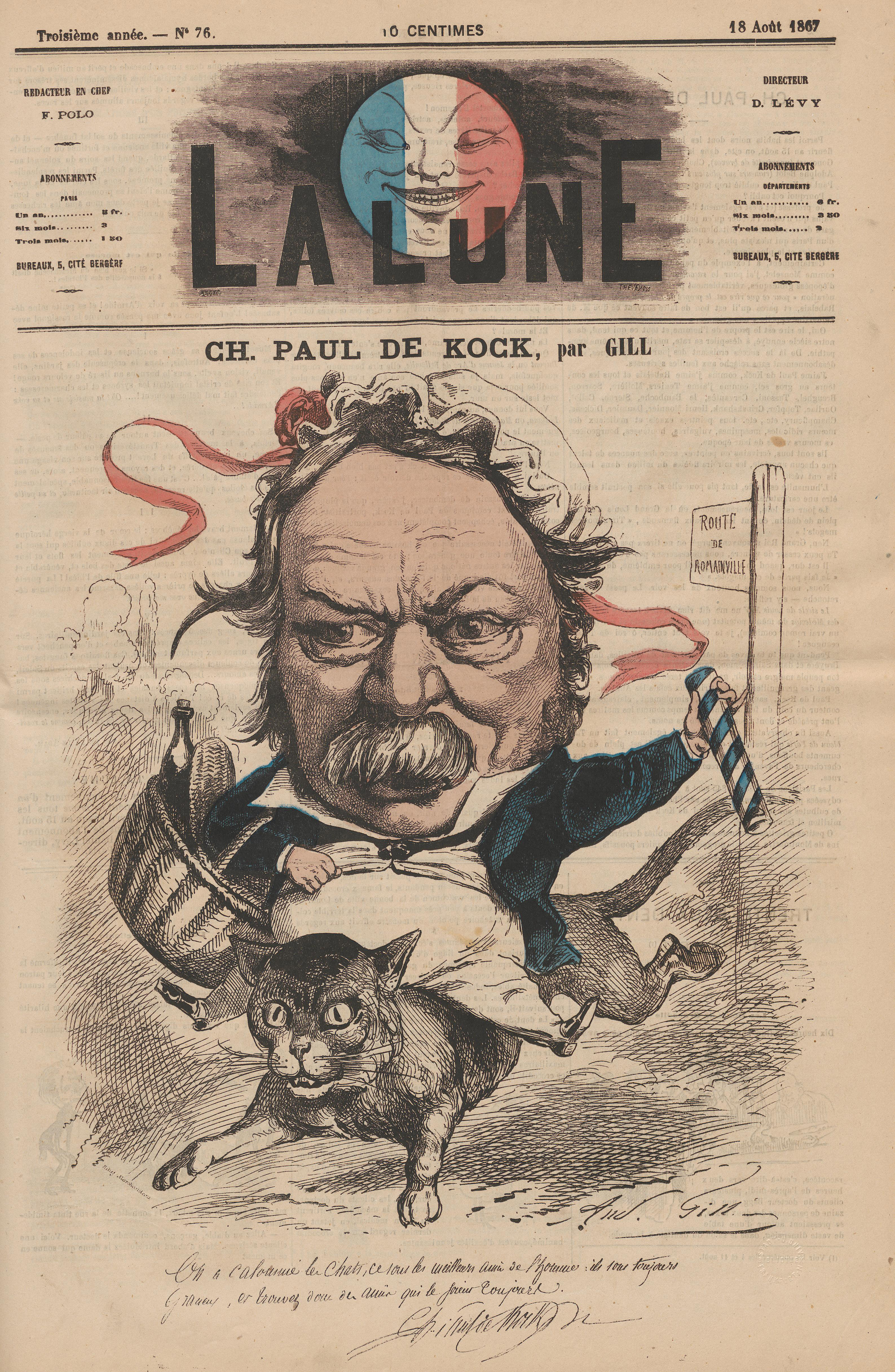 Caricature of Charles Paul de Kock Cover of La Lune 18 August 1867 Hand-colored Engraving 12"w x 18"h